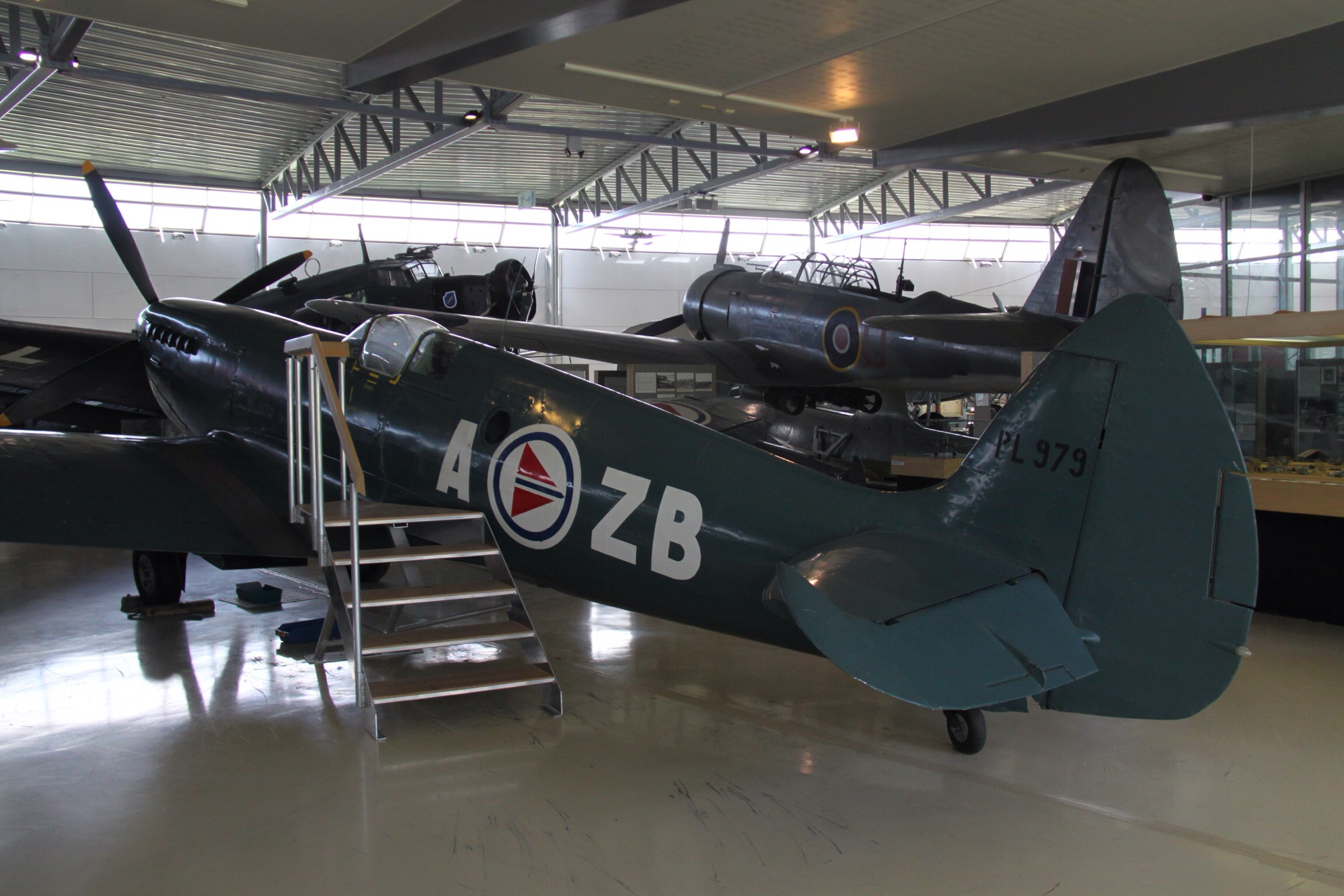 At Oslo Gardermoen